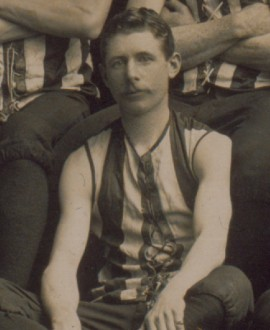 Photograph of Charlie Dow in 1902.